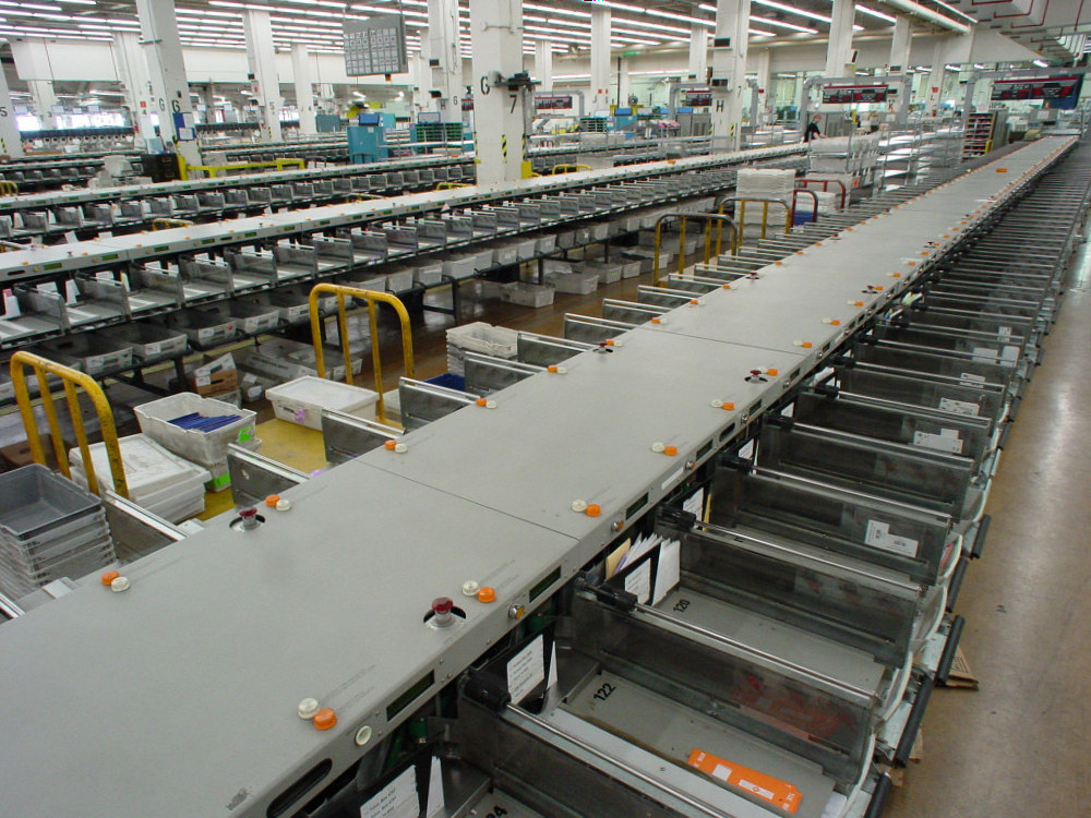 Mail sorting assembly line